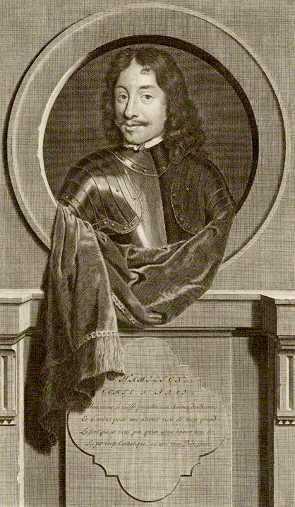 James Hamilton, 3rd Earl of Arran (c1537-1609)